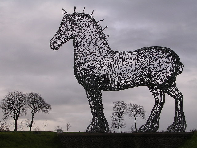 Heavy Horse. Impressive sculpture by Andy Scott overlooking the M8 at Glasgow Business Park, Easterhouse. The 4.5 metre tall galvanised steel Clydesdale Horse was unveiled in 1997.